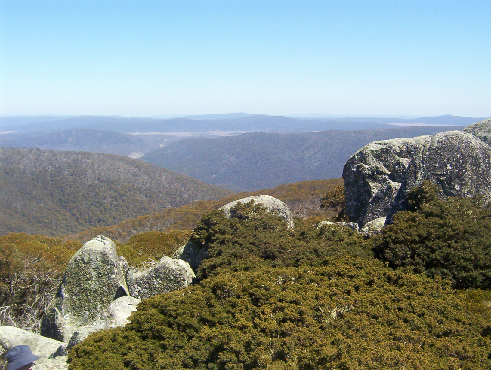 Description: A picture taken, of the view from the top of the Mount Ginini, Namadgi National Park. Source: Own work Date Taken: October 5th 2006 Author: Dfrg.msc Uploader: Dfrg.msc Permission: Given